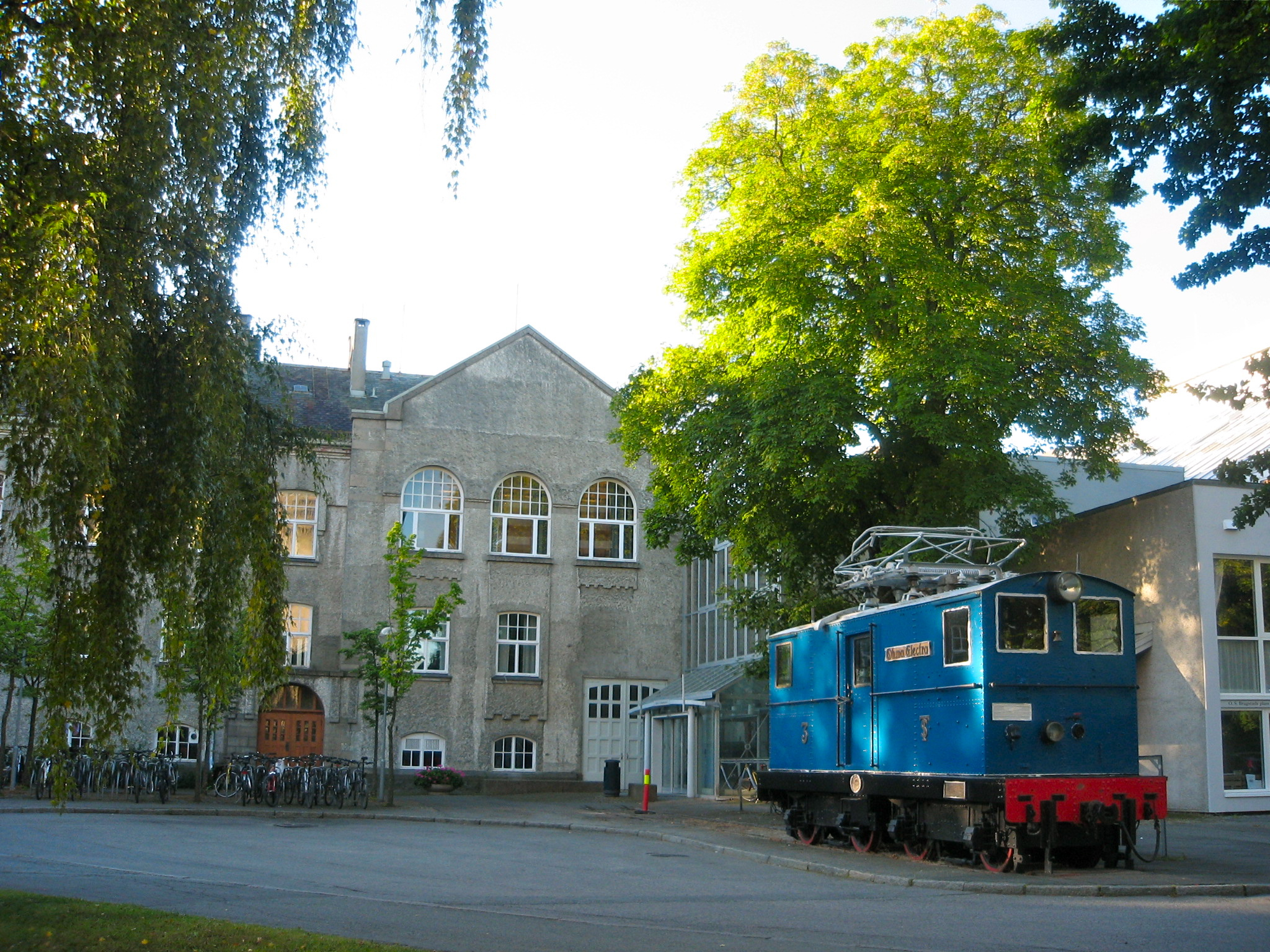 Norwegian Electric Locomotive No. 3 Ohma Electra. Pictured in Trondheim. Letters ST in a monogram on its side, the logo of Thamshavnsbanen. The locomotive was used from 1908 until the 1950ies. In 1972 it was moved to Trondheim and displayed near the Norwegian University of Science and Technology. The building is one of the first erected for NTH in 1910, "Gamle elektro". Architect: Bredo Greve.